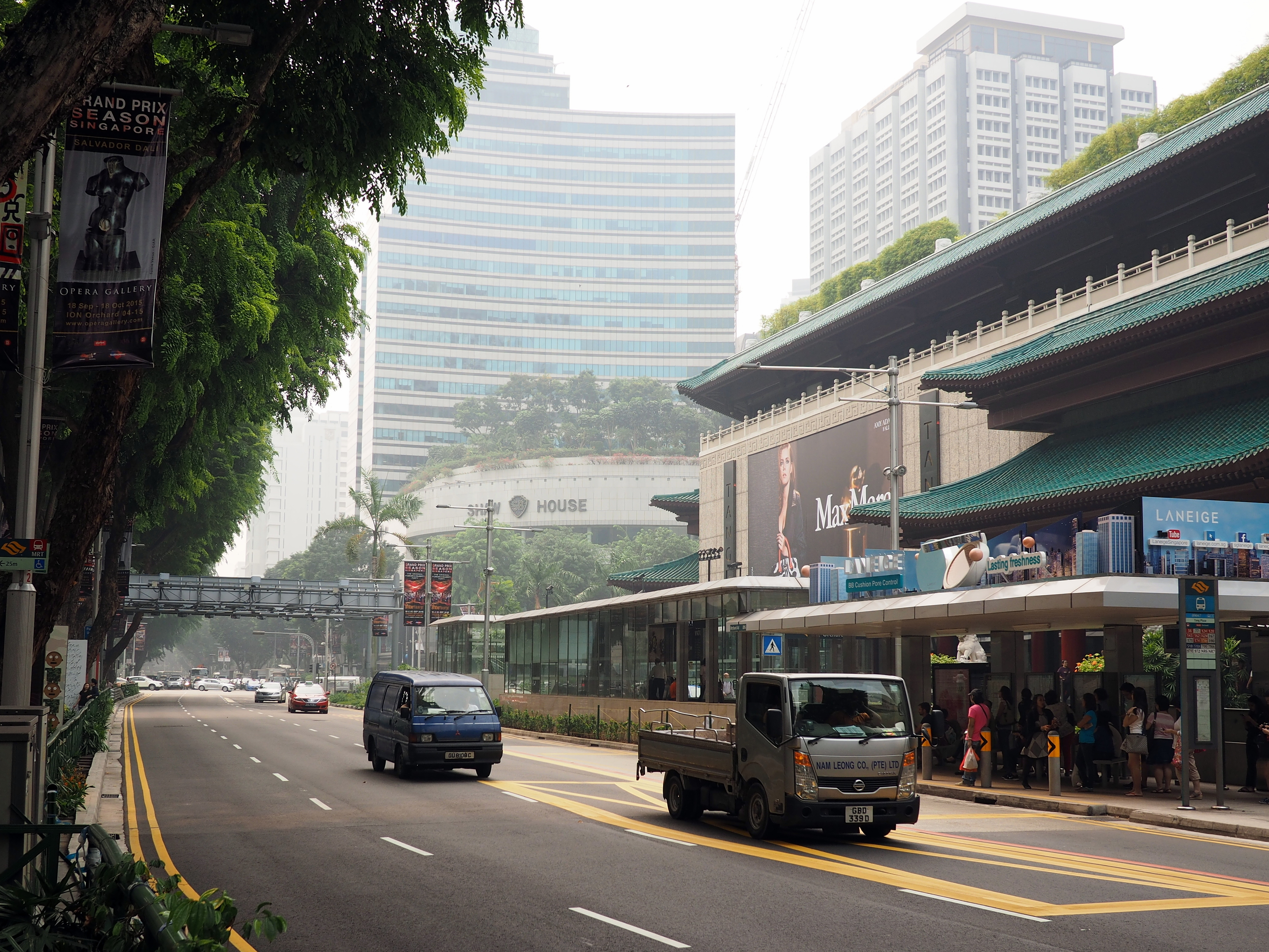 Haze on Orchard Road in early September 2015